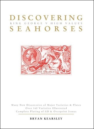 The cover of Discovering Seahorses – King George V high values by Brian Kearsley.